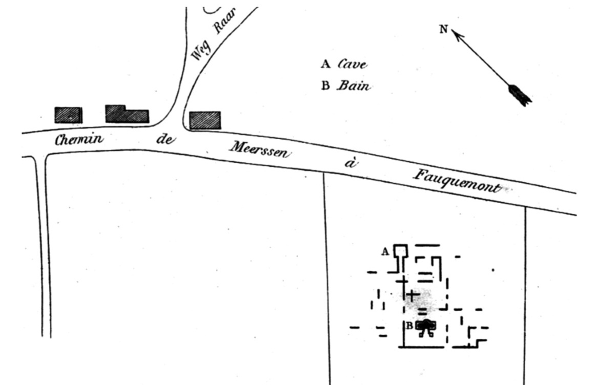 Drawing of archaeological excavation of the Roman villa Onderste Herkenberg in Meerssen near Maastricht, the Netherlands. The drawing is by the leader of the excavation in 1865, the priest Jozef Habets (1829-1893) and was first published in 1871.